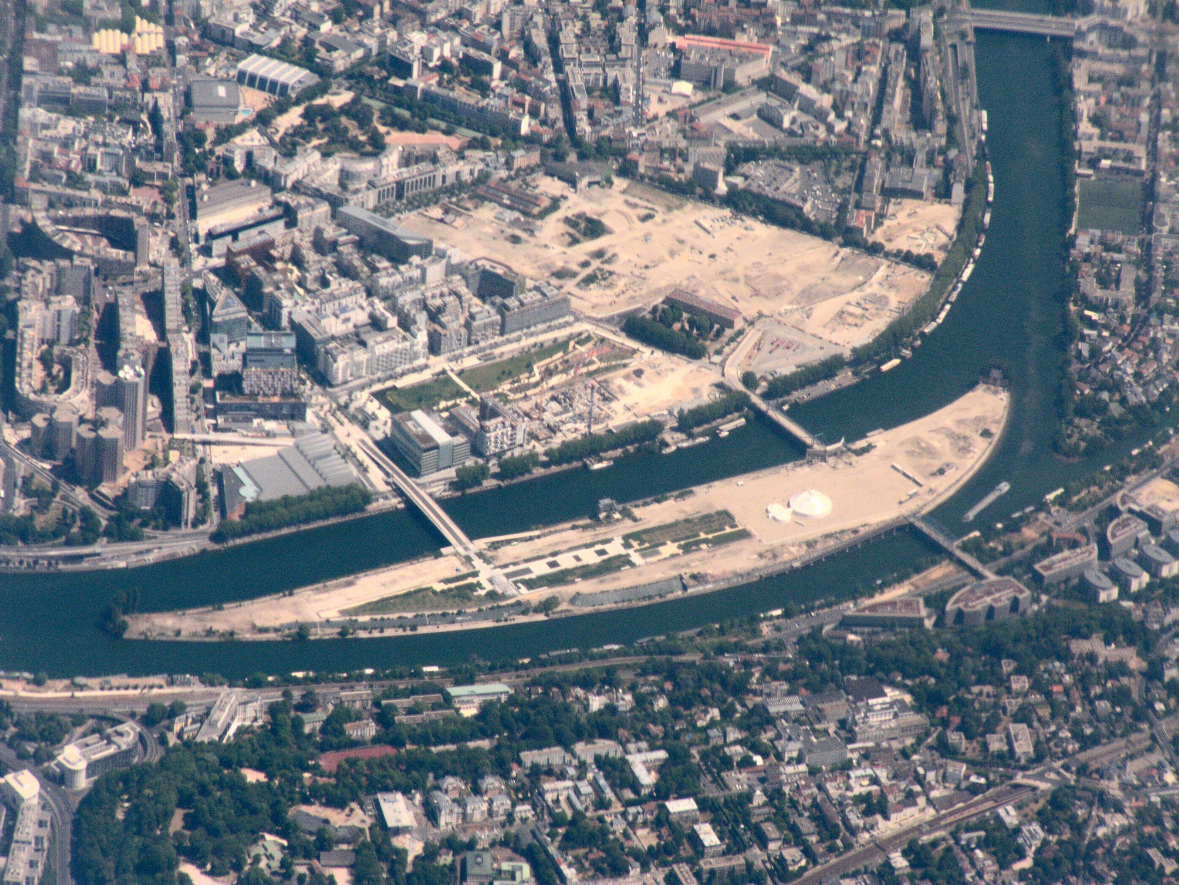 Île Seguin